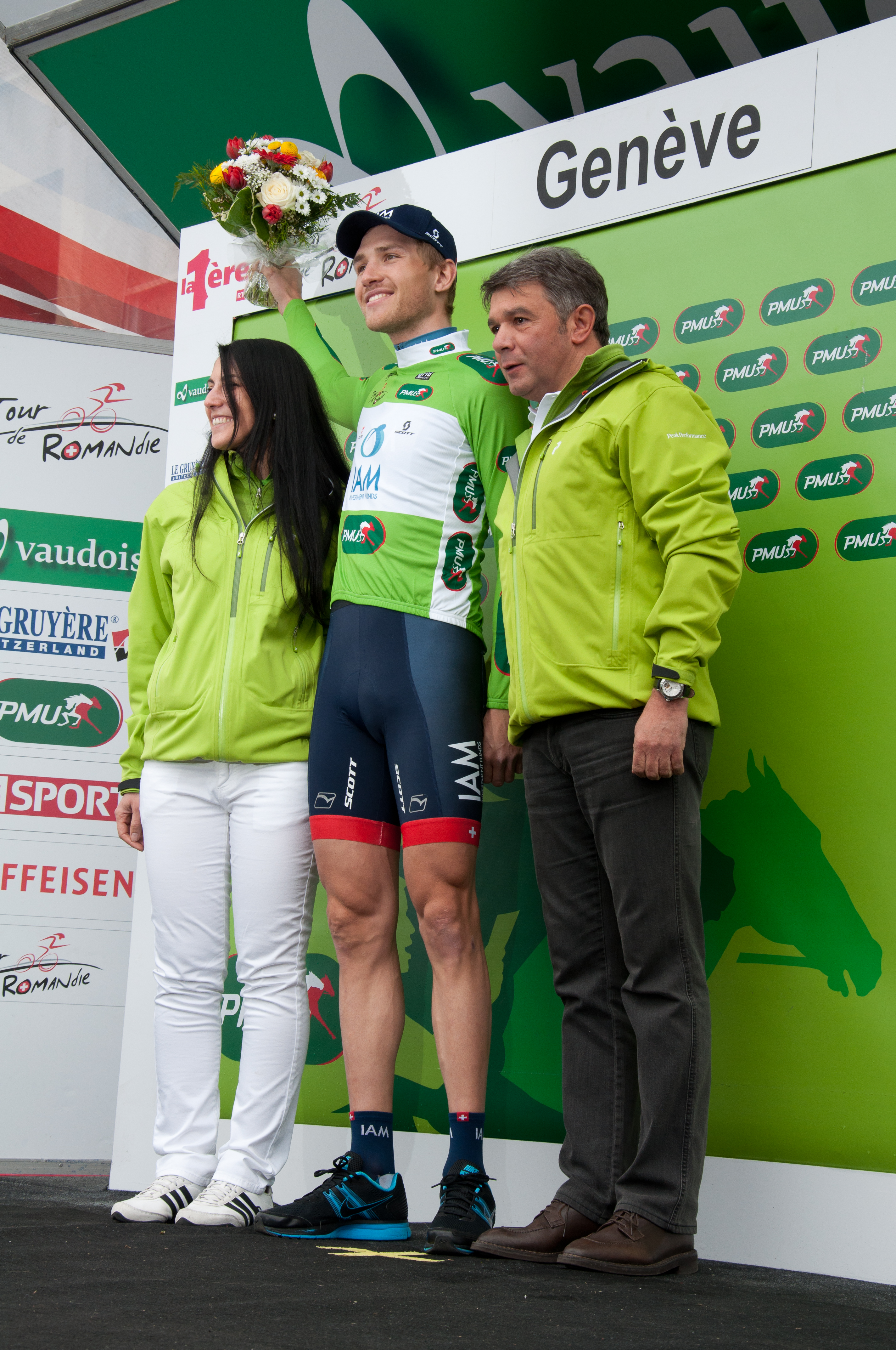 Podium ceremony of Tour de Romandie 2013's stage 5, in Geneva, Switzerland. Green jersey's winner Matthias Brändle has just been awarded.